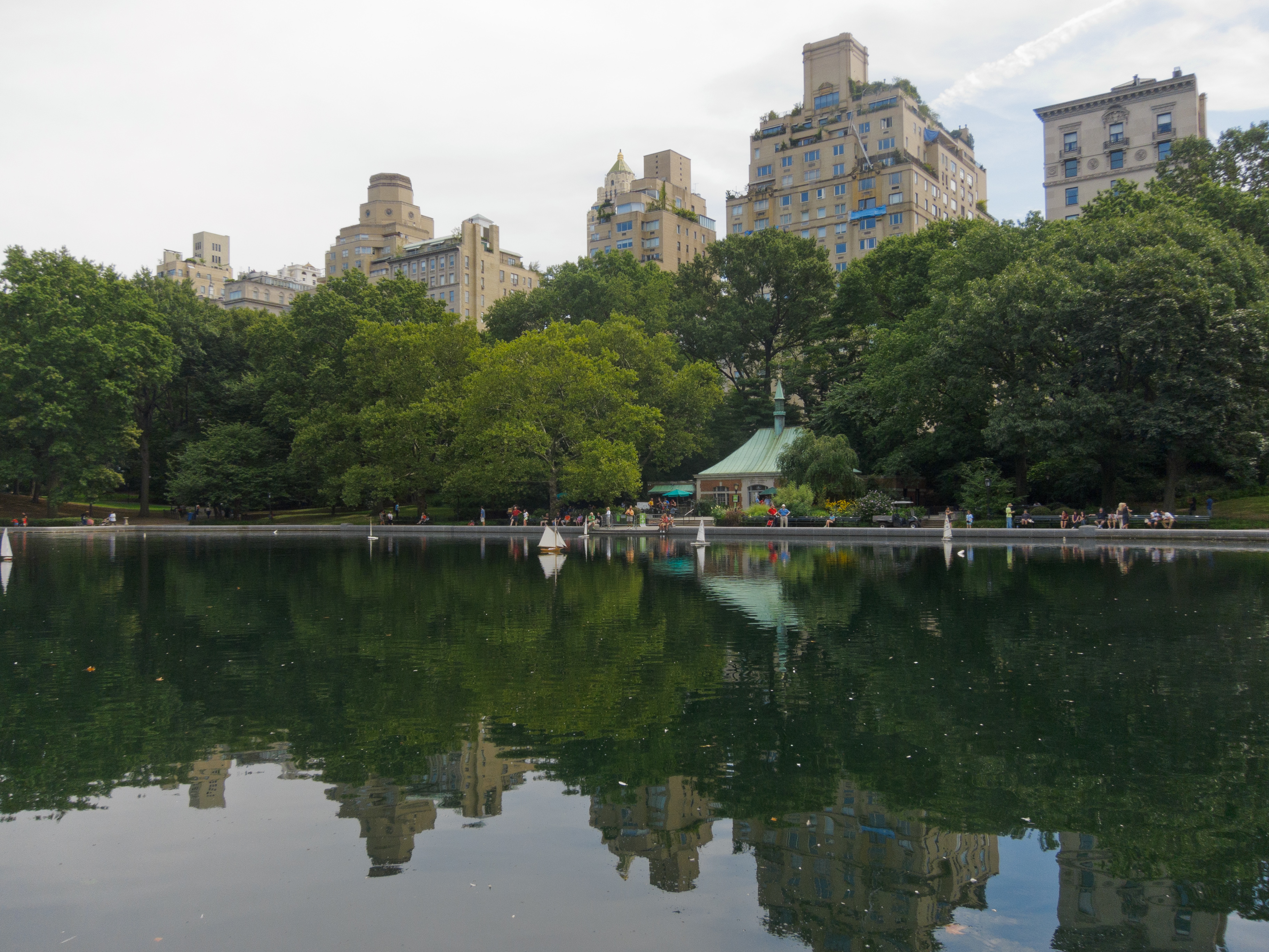 A view of the Upper East Side across Conservatory Water, Central Park, New York.